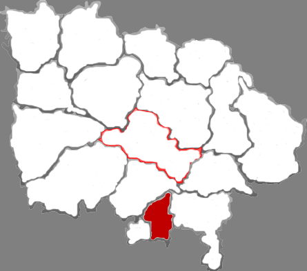 Location of Quwo county in Linfen City, China